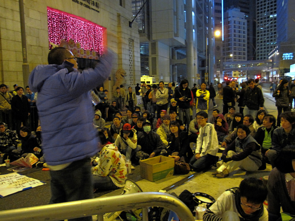 Anti-Guangzhou-Shenzhen-Hong Kong rail oppositions Jan 2010 protest